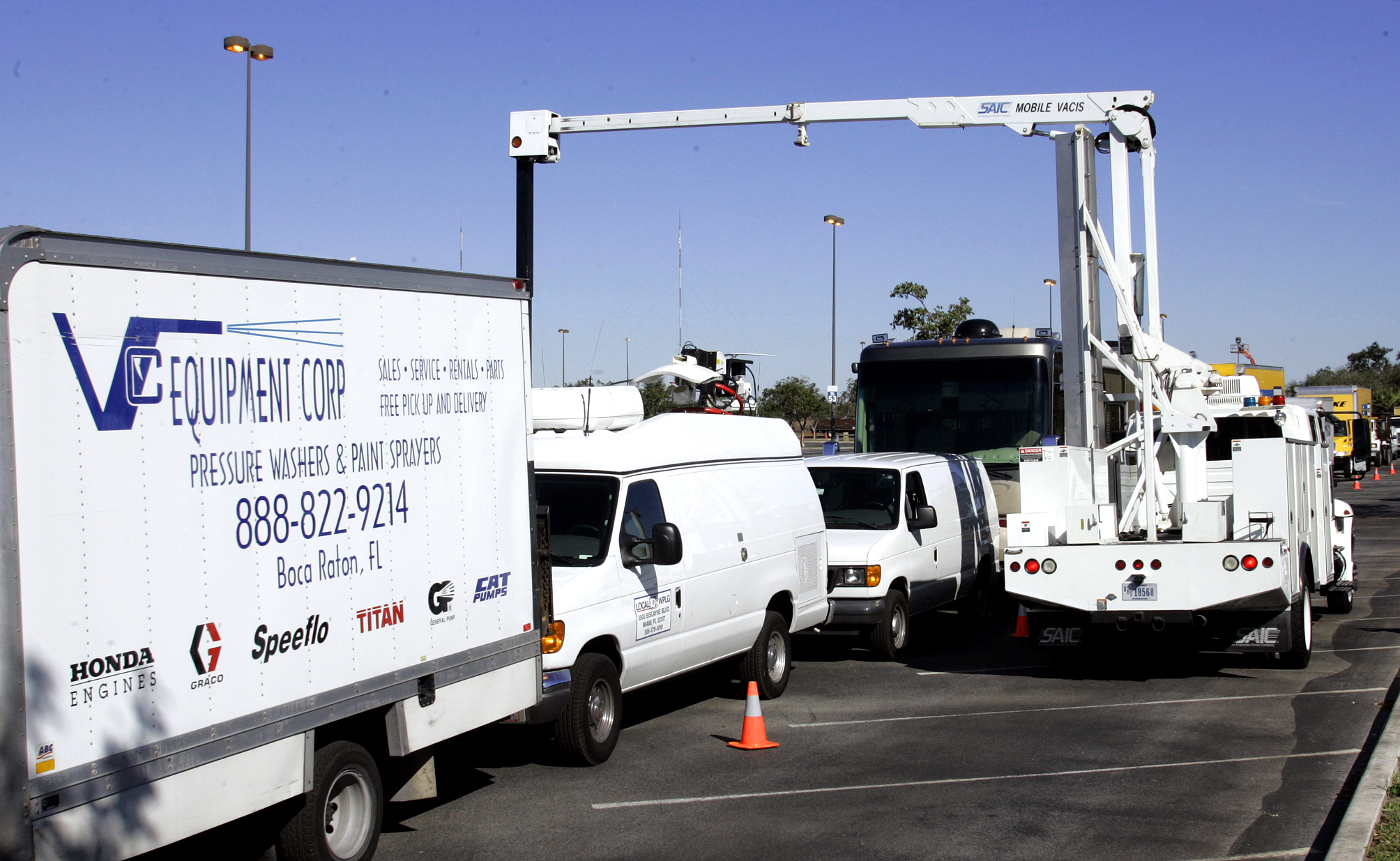 A U.S. Customs and Border Protection mobile gamma-ray machine clears all cars and trucks entering the Super Bowl venue.